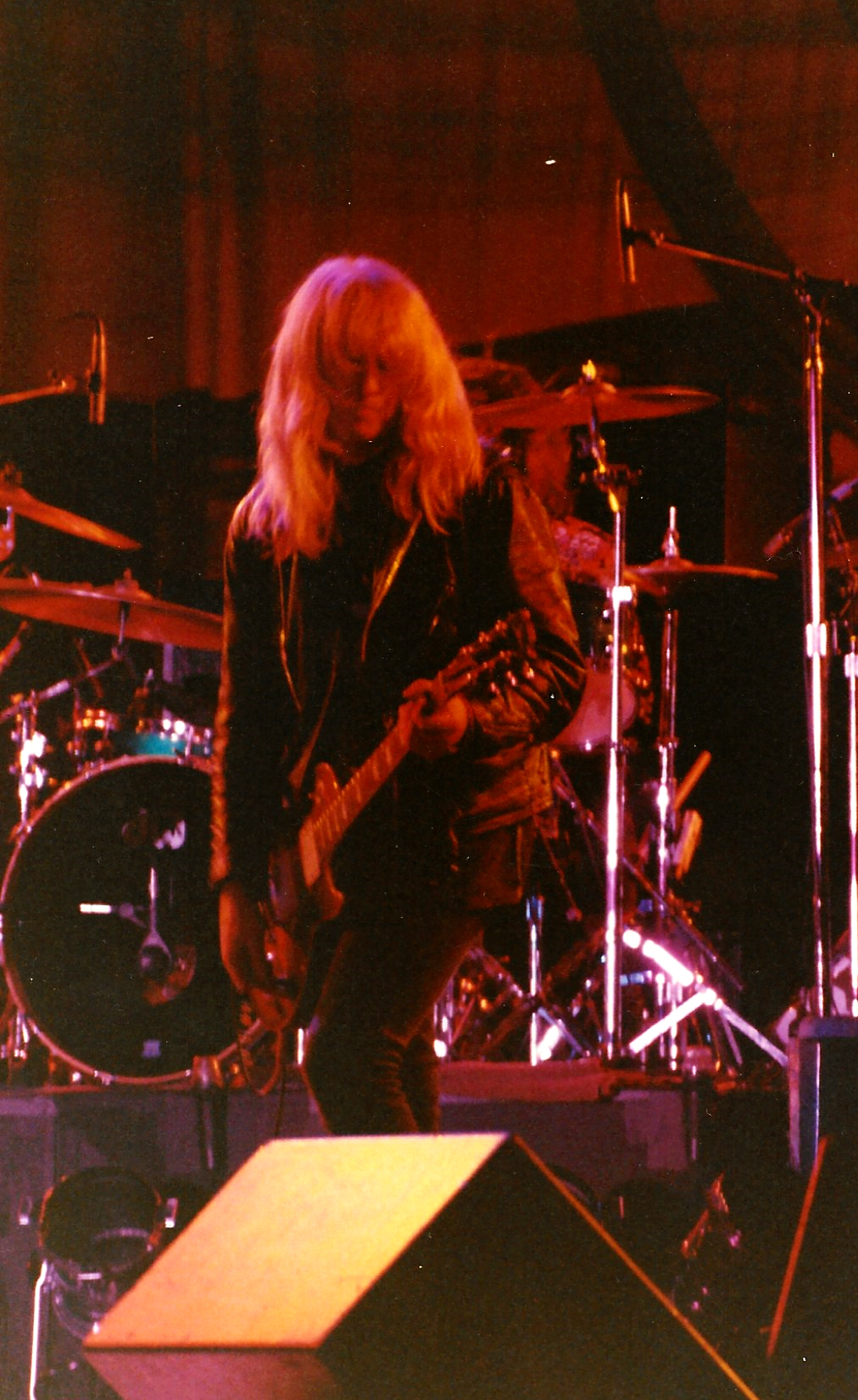 Buren Fowler performs with Drivin N Cryin at Six Flags Over Georgia in 1991